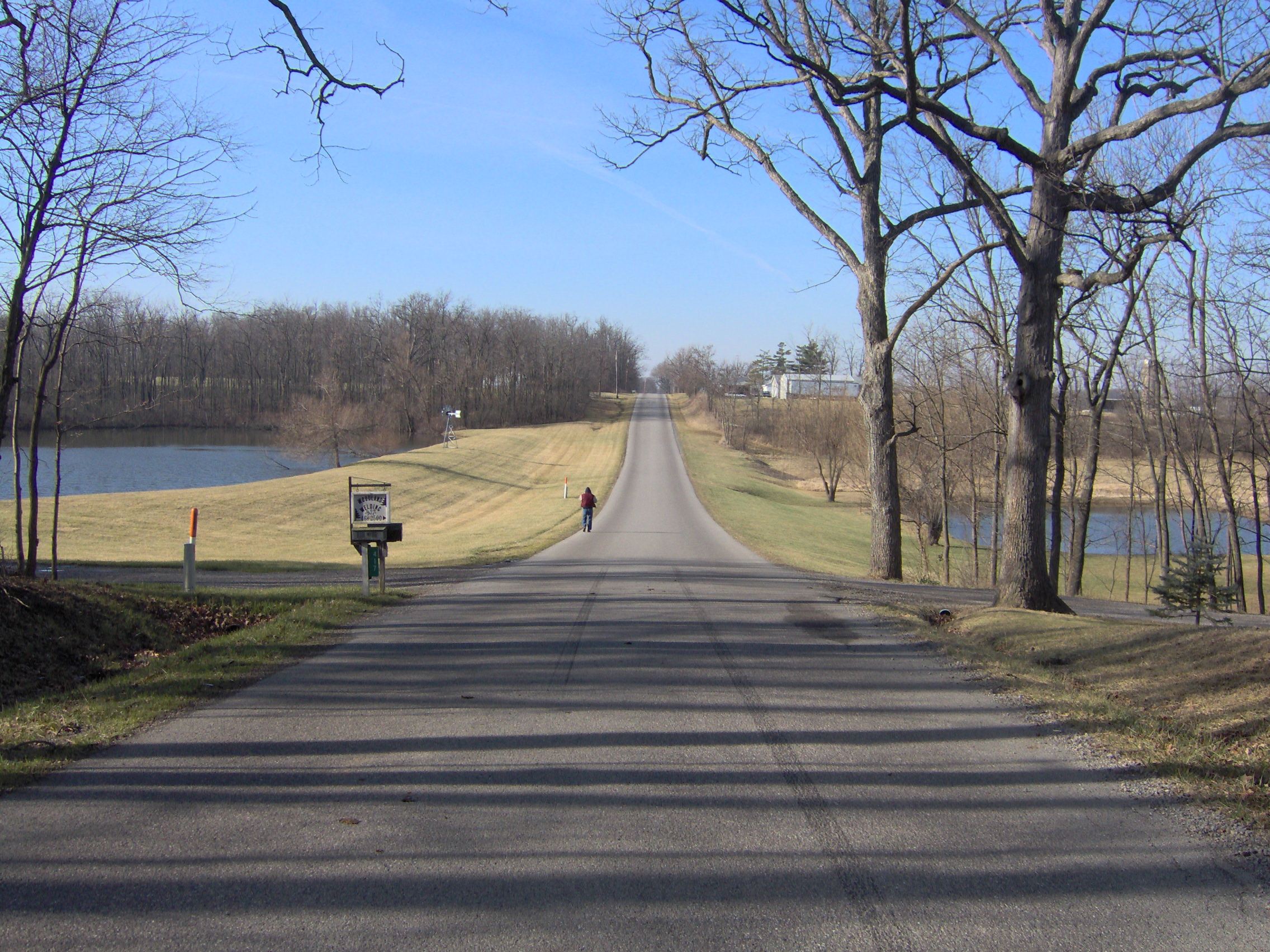 View westward along County Road 111 in Rushcreek Township, Logan County, Ohio. Picture taken by Nyttend on 3 January 2007.